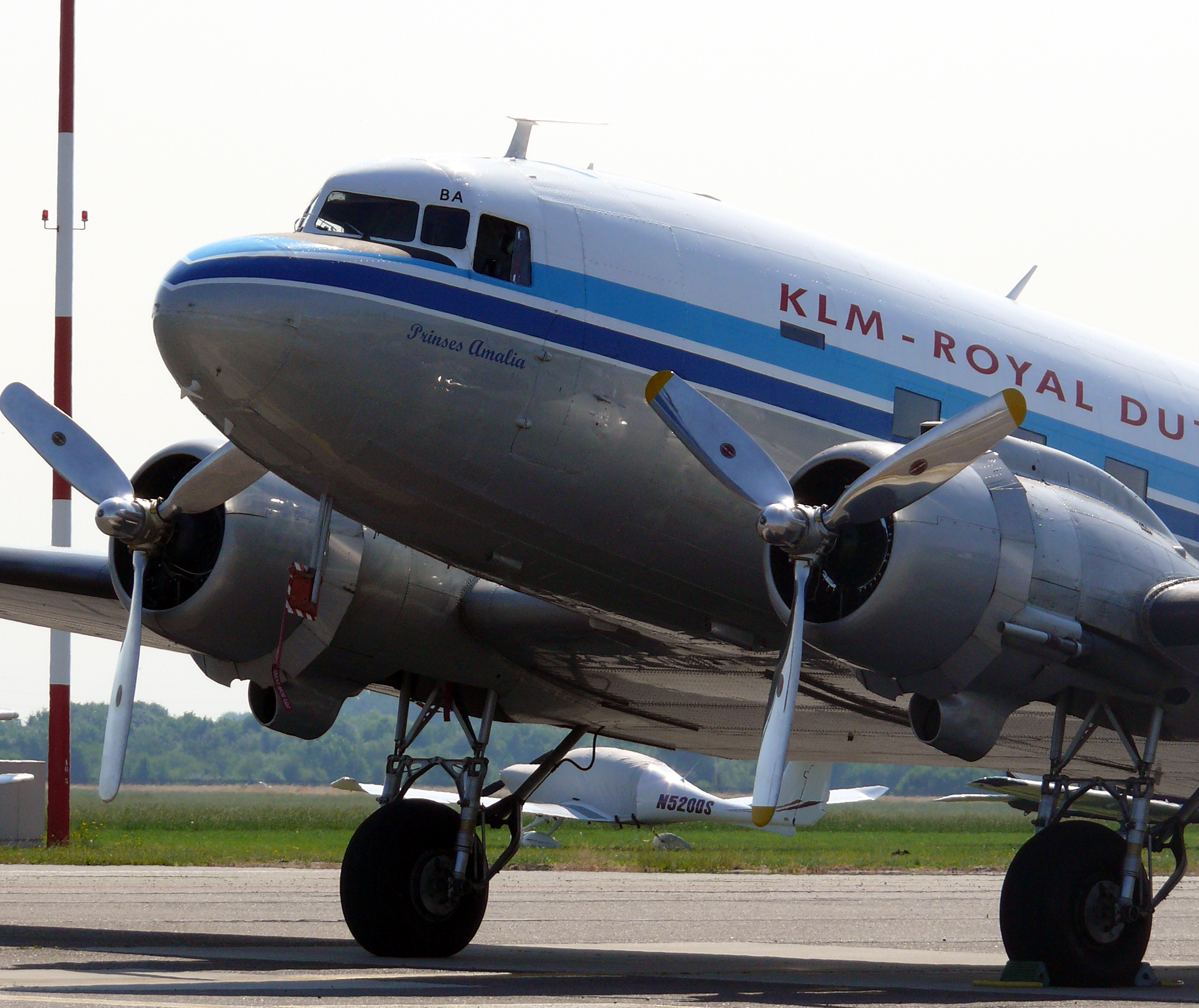 DDA - Dutch Dakota Association - Douglas C-47A Skytrain or Dakota (DC-3) PH-PBA (cn 19434) at the Stampe Fly in 2011. This airplane is painted in the livery of KLM in the sicties and is named prinses Amalia